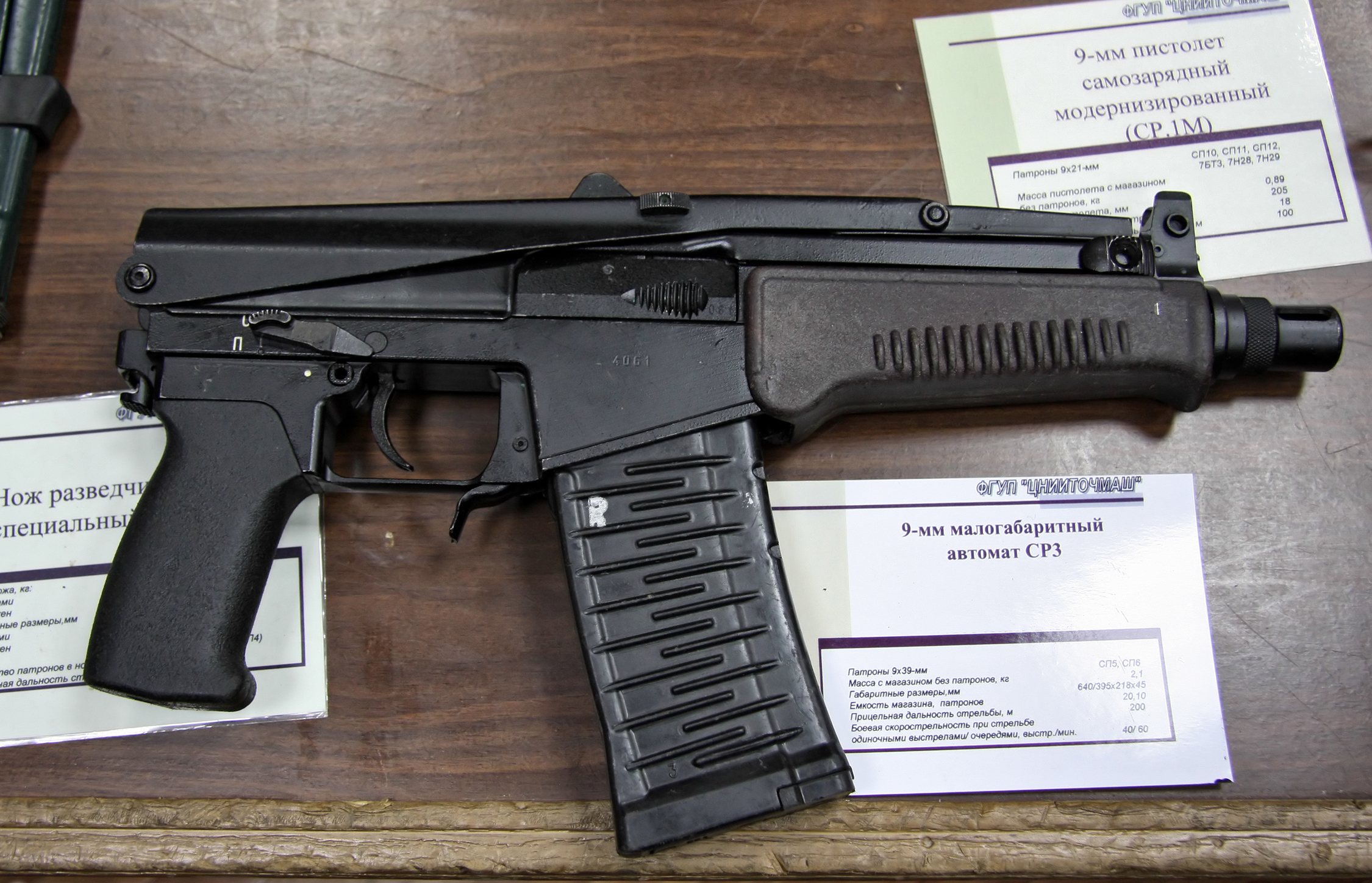 9-mm SR-3 rifle